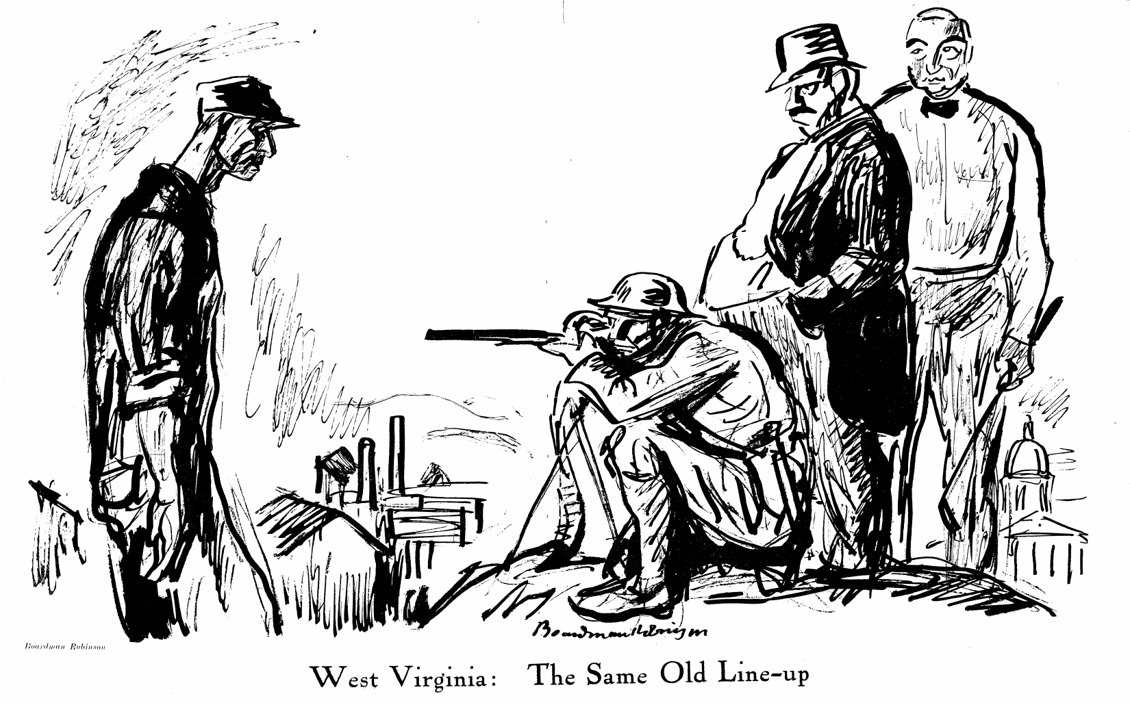 Political cartoon showing soldier with rifle trained on striking West Virginia miner; standing to the right, behind the soldier, are President Harding and a mine owner. The caption reads "West Virginia: same old line up." The political cartoon is in reference to the events during the Battle of Blair Mountain in 1921.